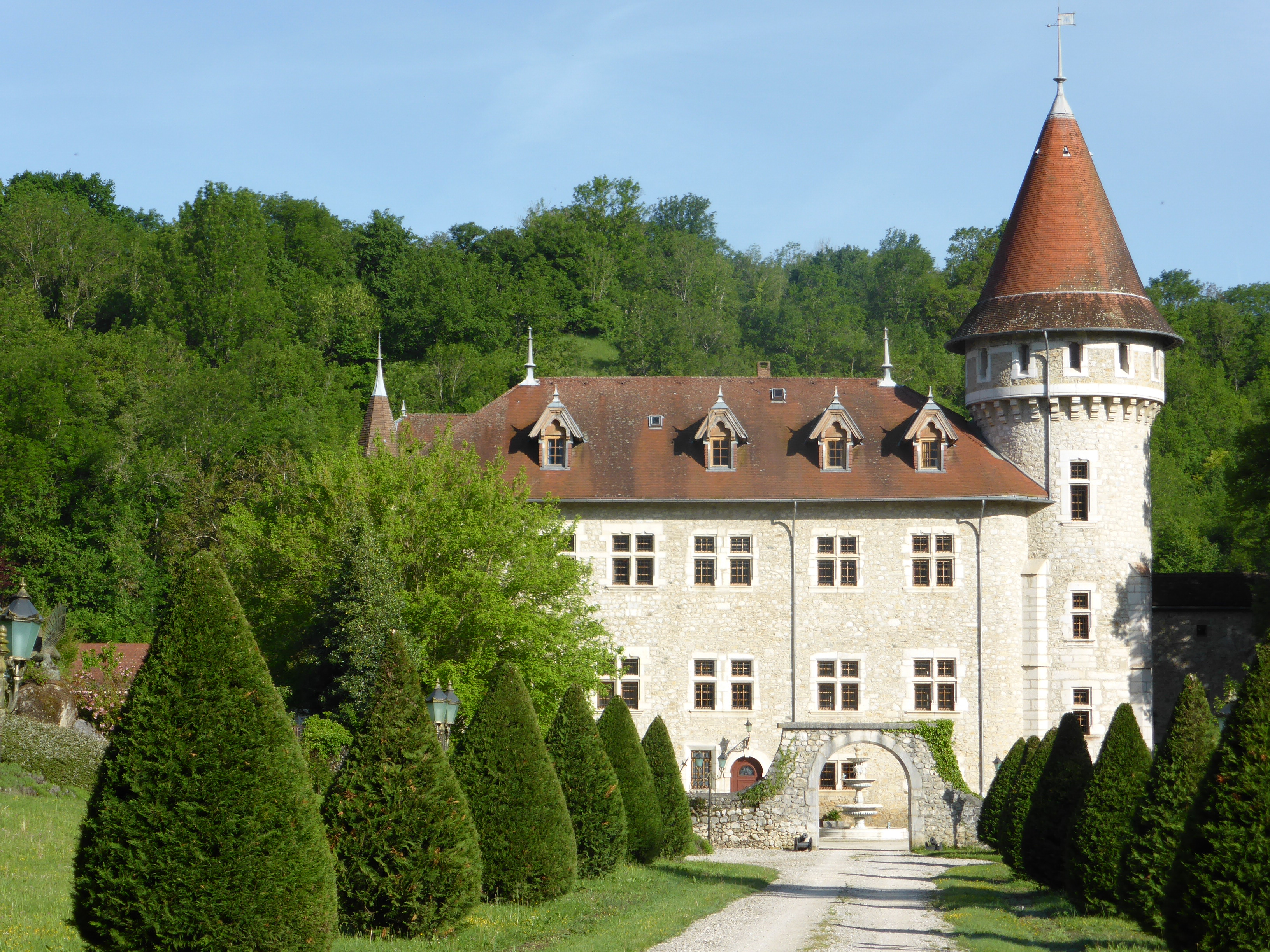 Castle of la Dragonnière in Yenne, Savoie, Rhône-Alpes, France.